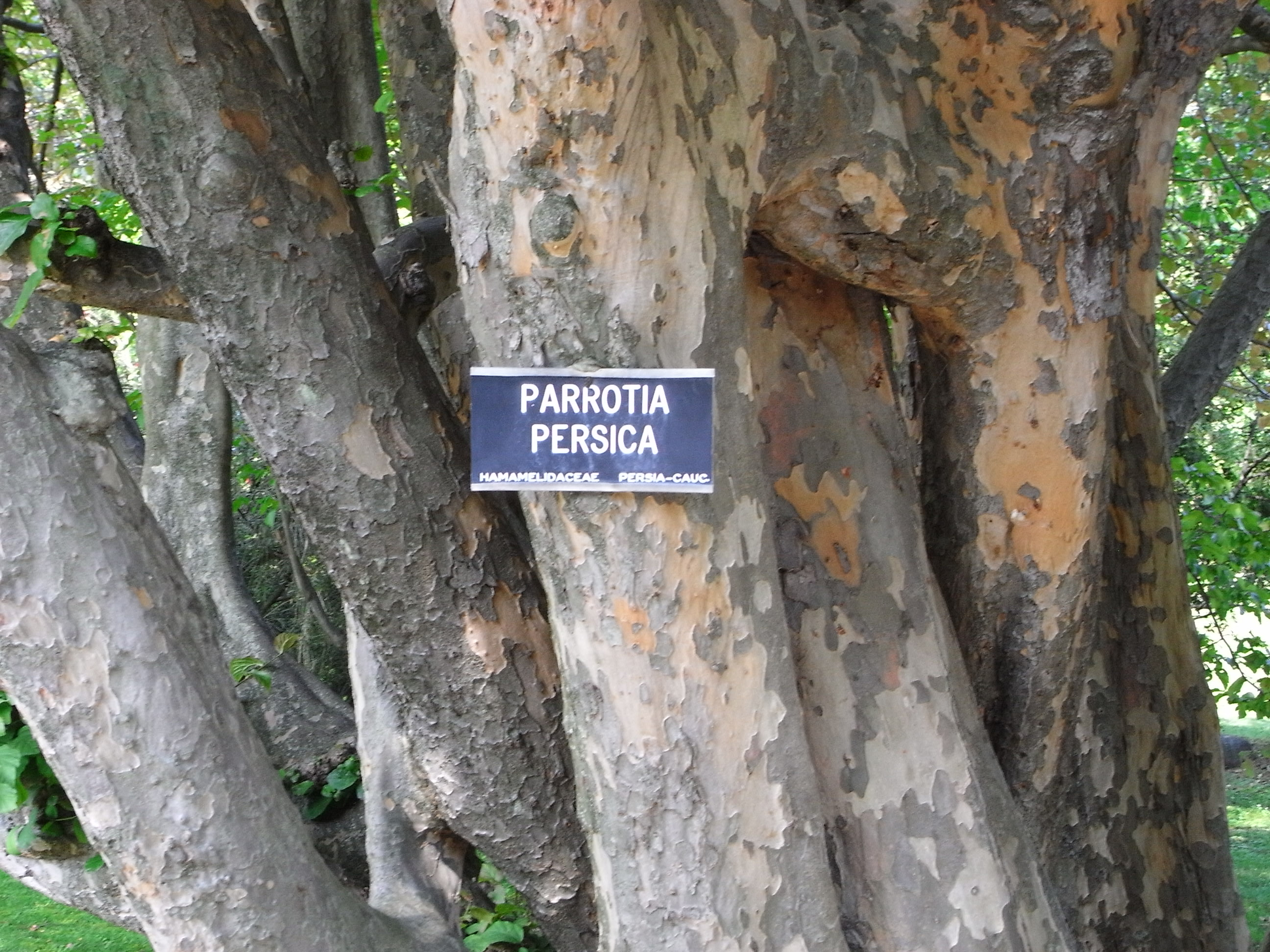 Bark of Parrotia persica in Arboretum of villa Taranto, Italy